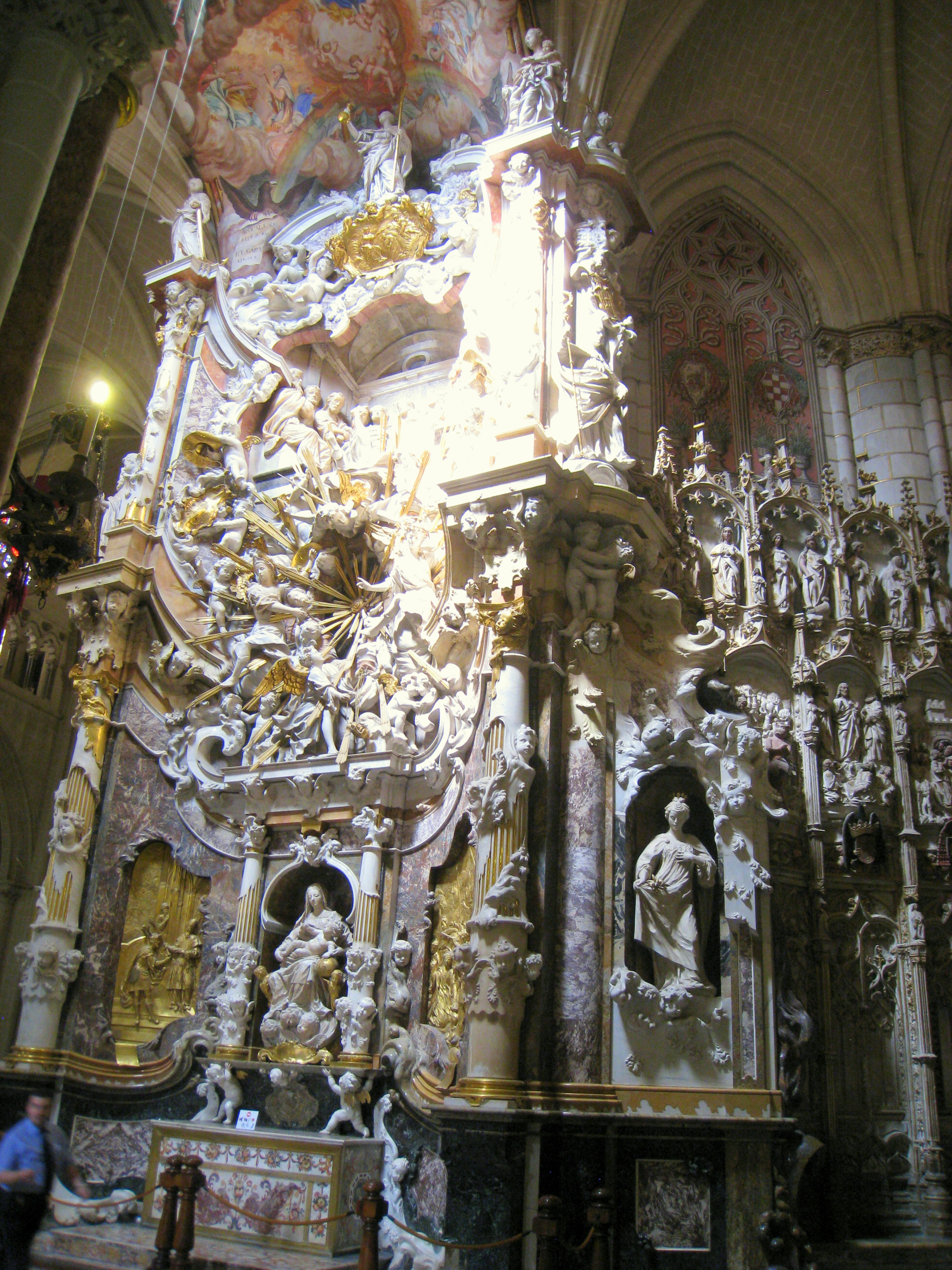 Transparente of Toledo Cathedral, Toledo, Spain.